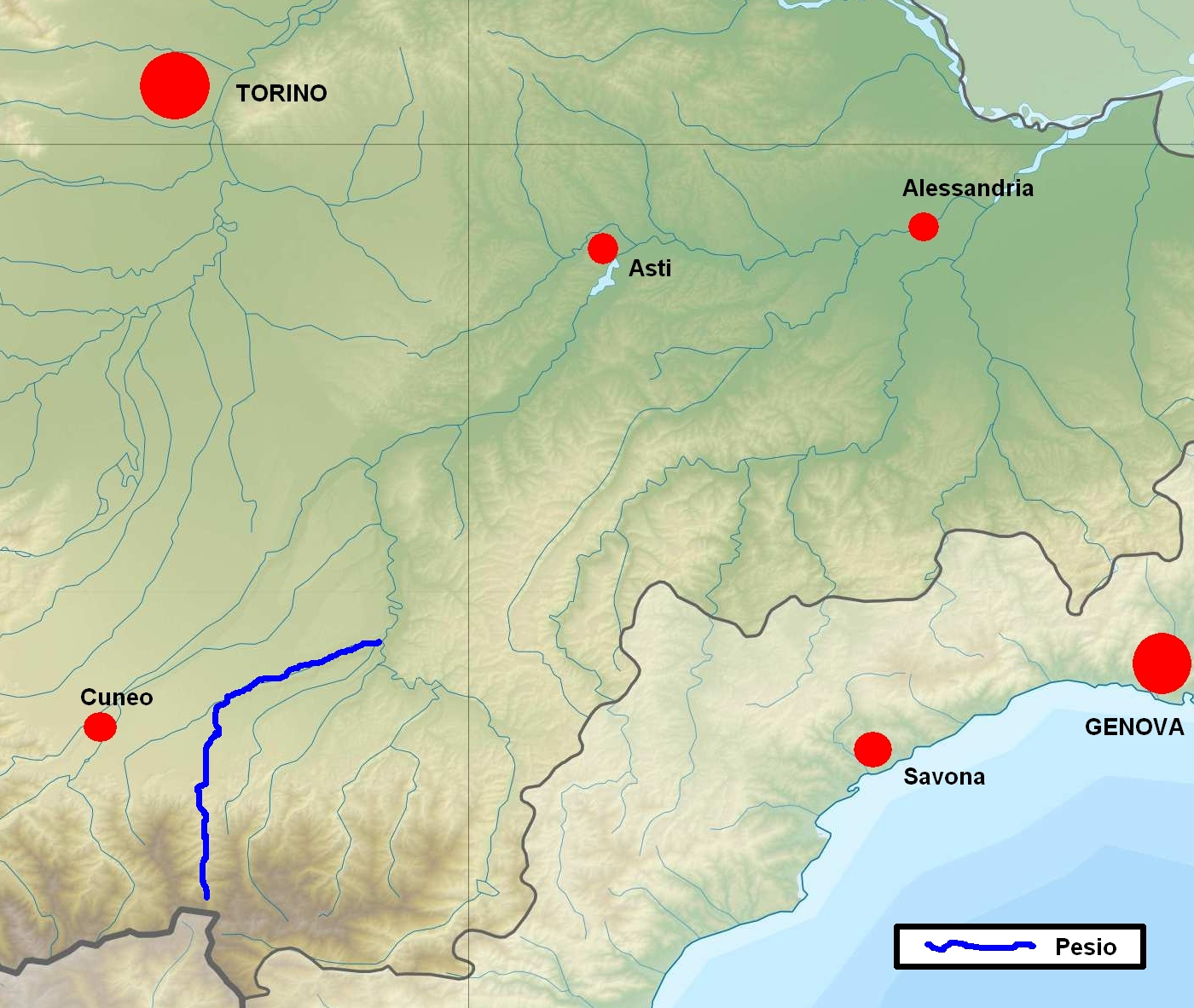 location within southern Piedmont (Italy)